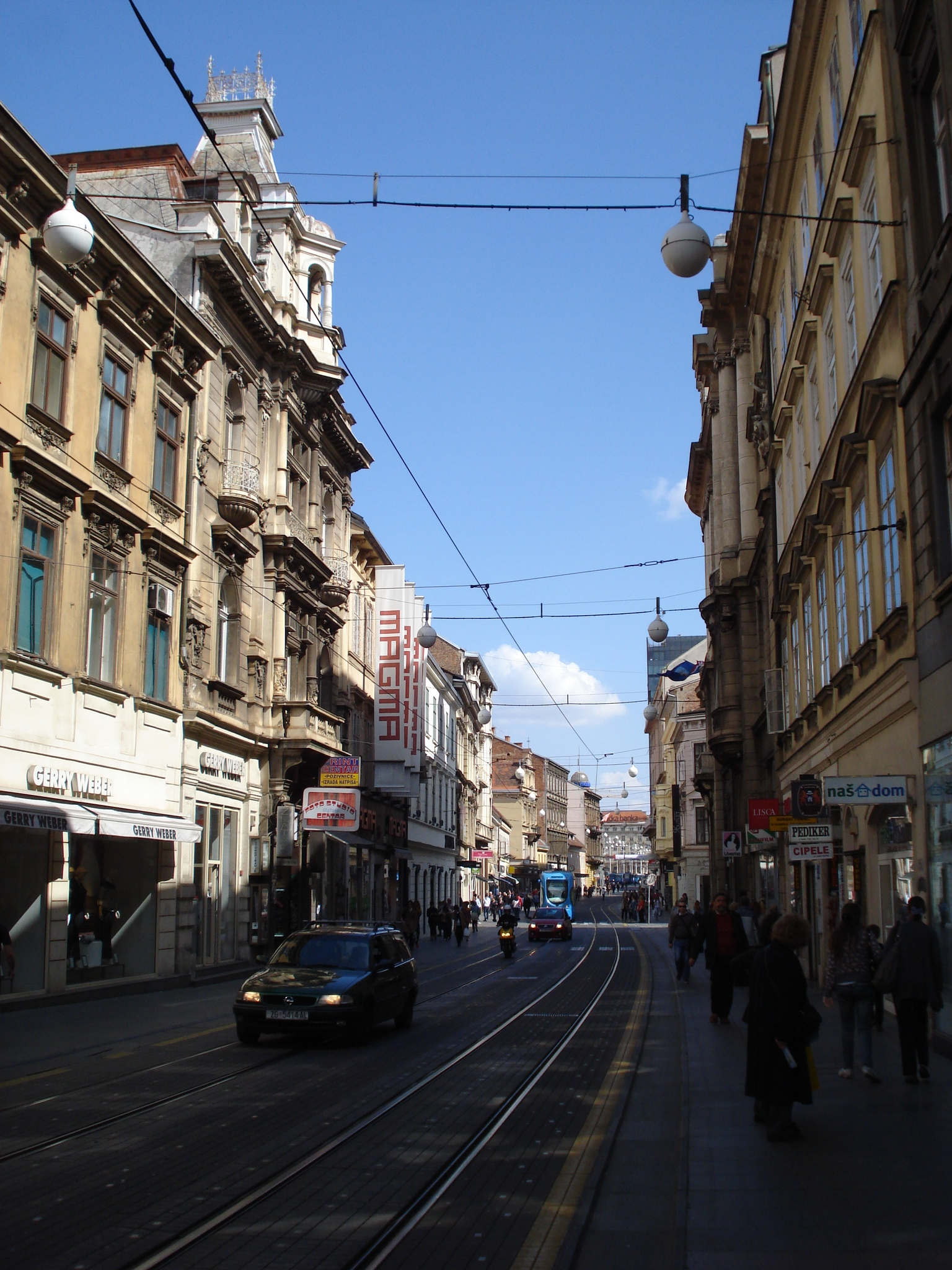 Ilica street in Zagreb city center, Croatia